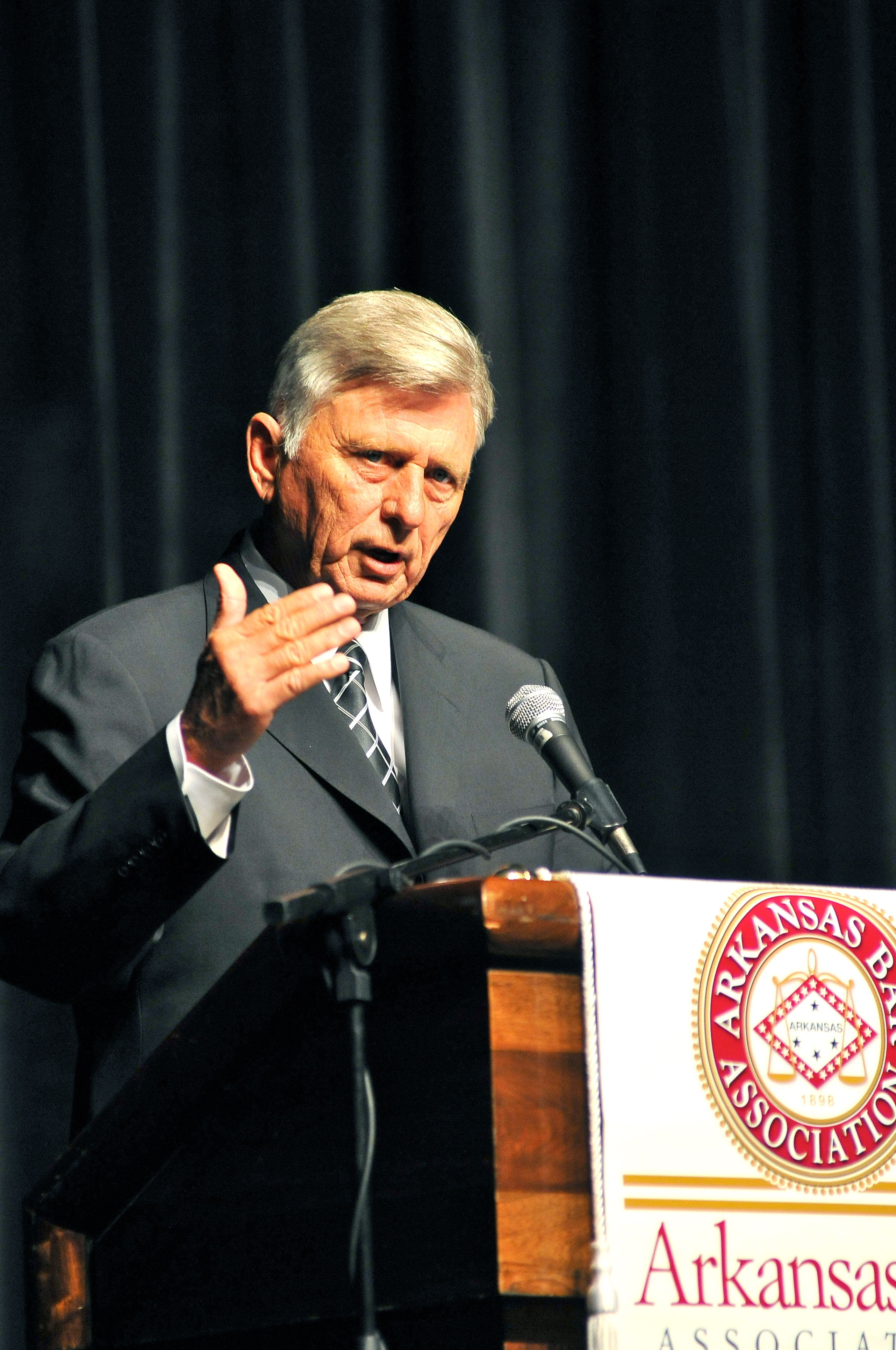 Friday morning at the Bar Meeting